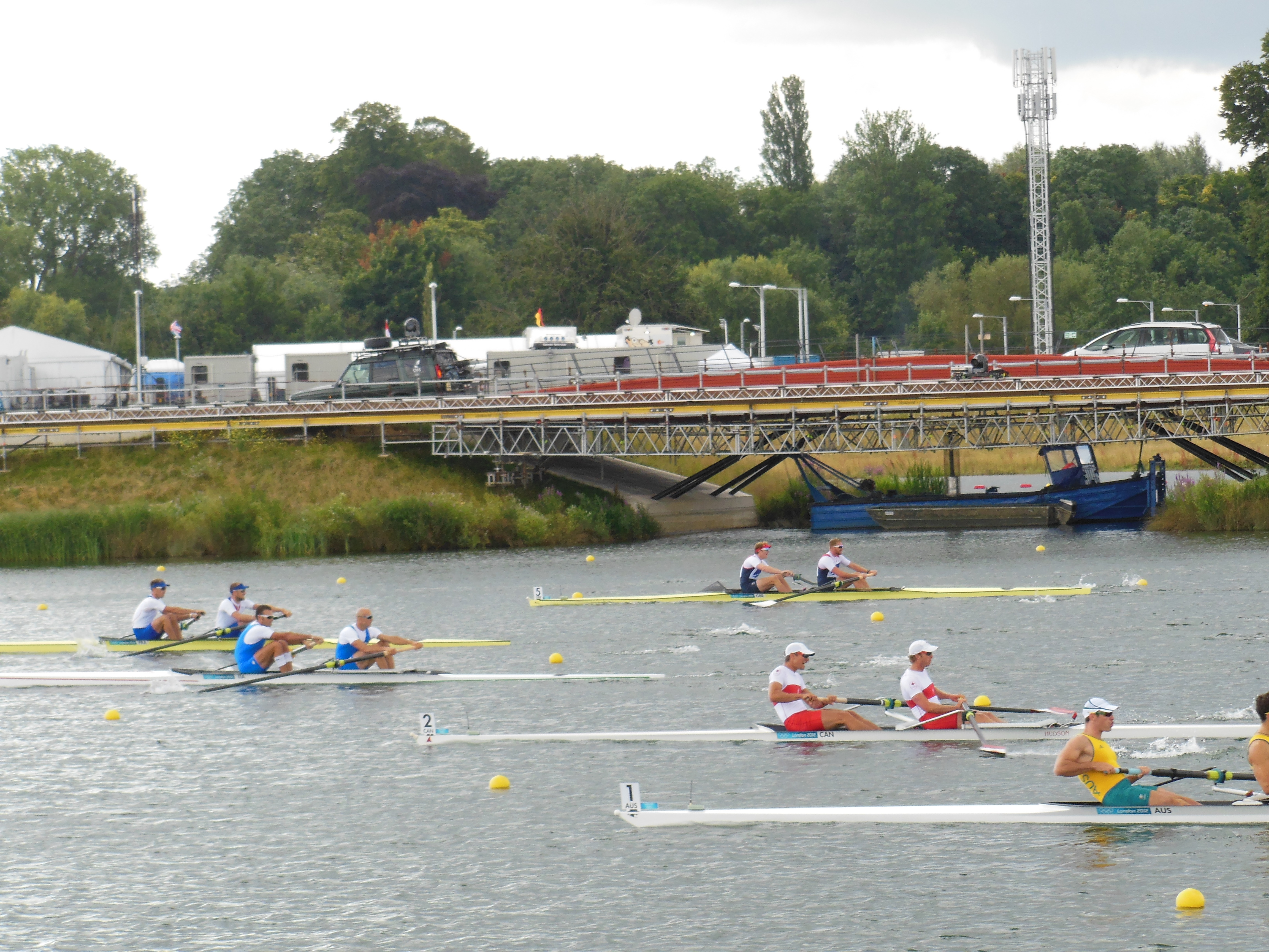 01 ! Eric Murray Hamish Bond New Zealand 6:16.65 02 ! Germain Chardin Dorian Mortelette France 6:21.11 03 ! George Nash William Satch Great Britain 6:21.77 4 Niccolo Mornati Lorenzo Carboncini Italy 6:26.17 5 James Marburg Brodie Buckland Australia 6:29.28 6 David Calder